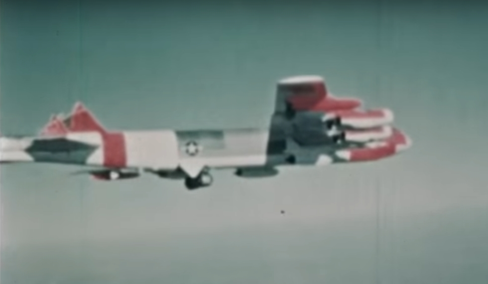 The 61-023 B-52H Stratofortress depicted here was flying at 14,300 feet and about 345 knots, when it encountered severe clear air cross-turbulence (a Colorado mountain gust of about 100 mph) and lost the vertical stabilizer. The crew managed to fly it to a safe landing in Arkansas.